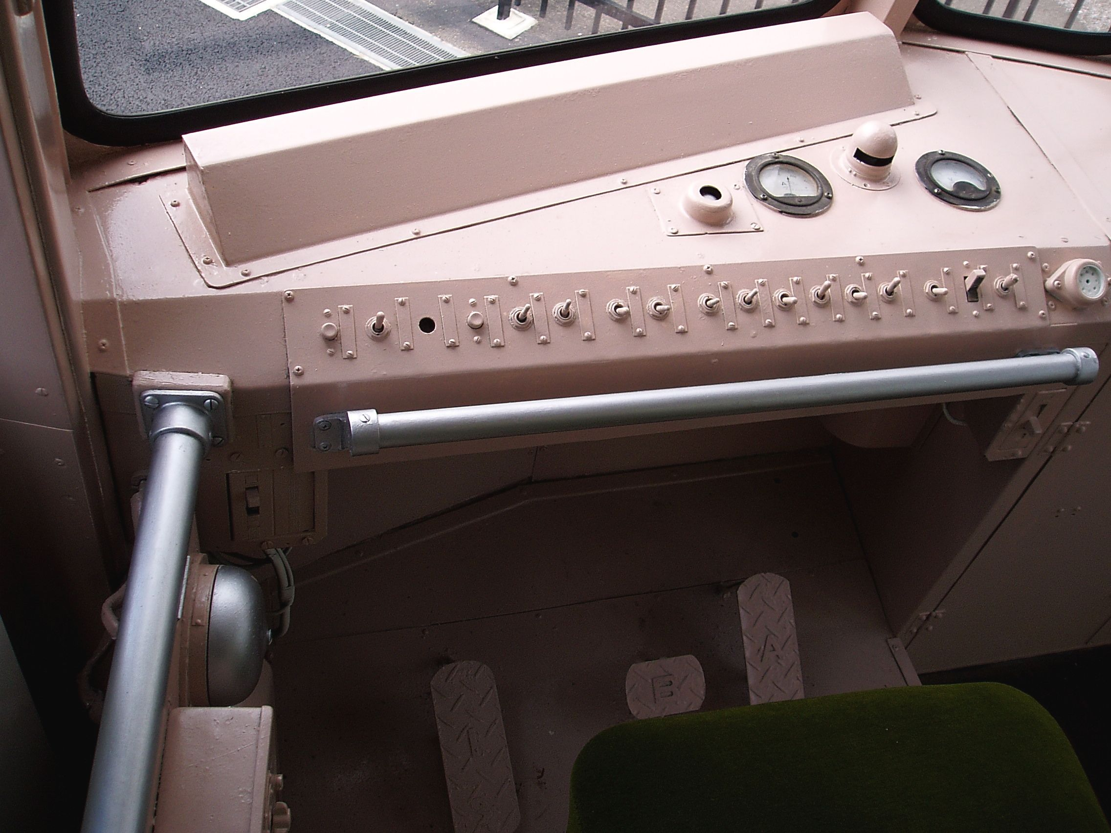 Cockpit of Tokyo Metropolitan Bureau type 5500.